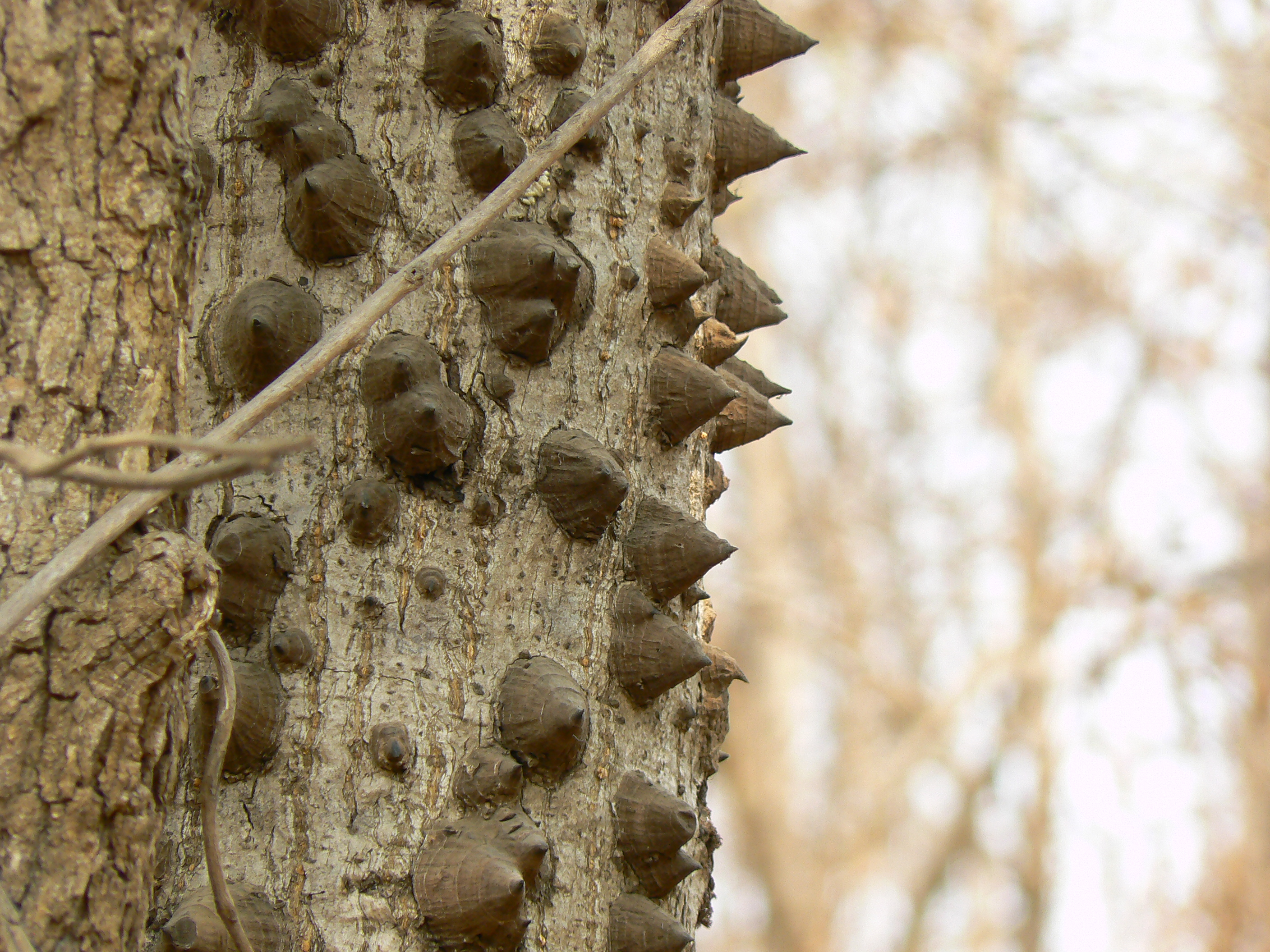 Bombacaceae (baobab family) » Bombax ceiba BOM-baks -- from the Greek bombyx (silk), referring to the silken fibers from this tree SAY-buh -- Latinized form of the South American name for this tree commonly known as: Indian cottonwood, Indian kapok, red silk-cotton tree, simal tree • Assamese: himila, himolu • Bengali: katseori, roktosimul • Hindi: कांटीसेंबल kaantisenbal, रक्त सेंबल rakta senbal, सेमल semal, सेमर कंद semar kanda, सेमुल semul, सेमुर semur, शेंबल shembal, शिंबल shimbal, सिमल simal, सिमुल simul • Kannada: ಕೆಮ್ಪುಬೂರುಗ kempuburuga • Malayalam: mullilavu • Manipuri: tera • Marathi: शाल्मली shaalmali, सांवर saanvar, सांवरी saanvari, सौर saura • Mizo: pang, phunchawng • Oriya: similikonta • Sanskrit: शाल्मली shaalmali, शल्मली shalmali • Tamil: இலவு ilavu, பூலா puulaa, முள்ளிலவு mullilavu • Telugu: బూరుగ buruga Origin: tropical southern Asia, northern Australia In Guangdong, the tree is known as muk min (木綿, lit. wood cotton) or hung min (紅綿, lit. red cotton). It is also known as Ying Hung Shue (英雄樹, lit. hero tree), for its straight and tall trunk. References: Flowers of India • Dave's Garden • Wikipedia